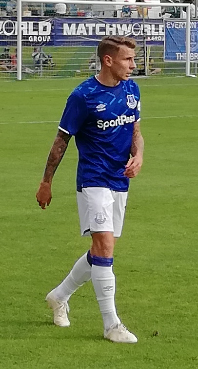 Lucas Digne playing for Everton FC against FC Sion in a friendly game in Bagnes, Switzerland, in July 2019